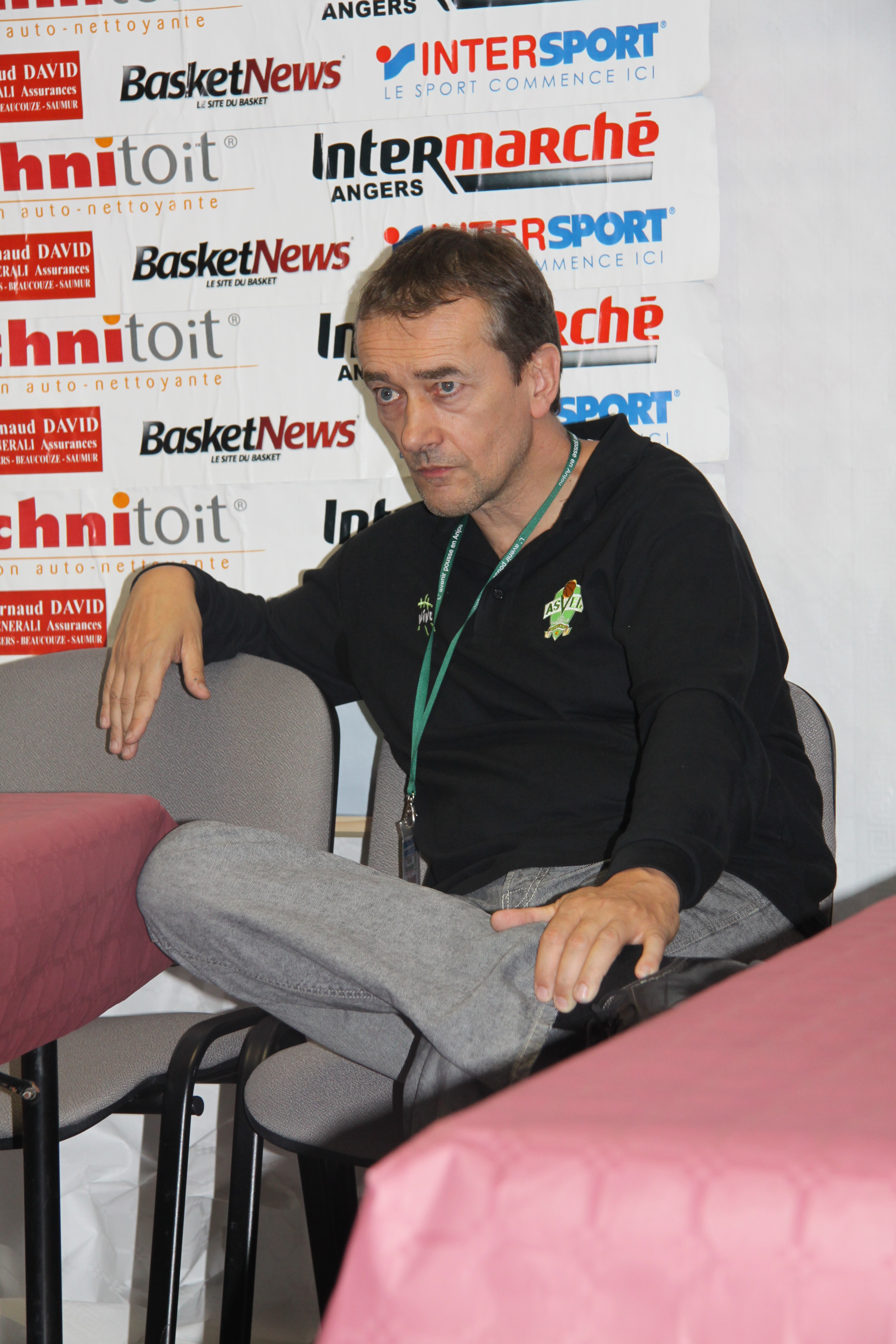 Pierre Vincent in a press conference in Angers